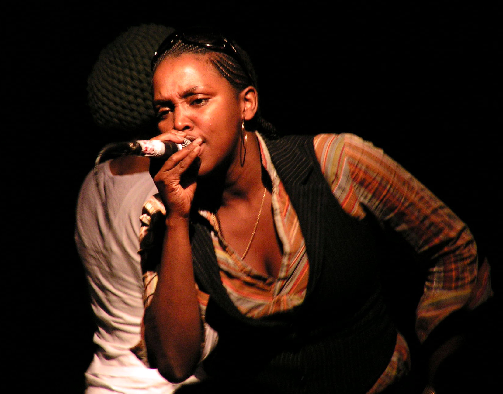 milano onejiru; Onejiru on stage performing at Milano, Italy. She is a Kenyan-German singer, a member of the Sisters. KONICA MINOLTA DIGITAL CAMERA / DiMAGE Z10; ƒ/3.2; 42.1 mm; 1/40: 200; Flash (off, did not fire); original file name=MilanoOnejiru433714827 1a630284cc o